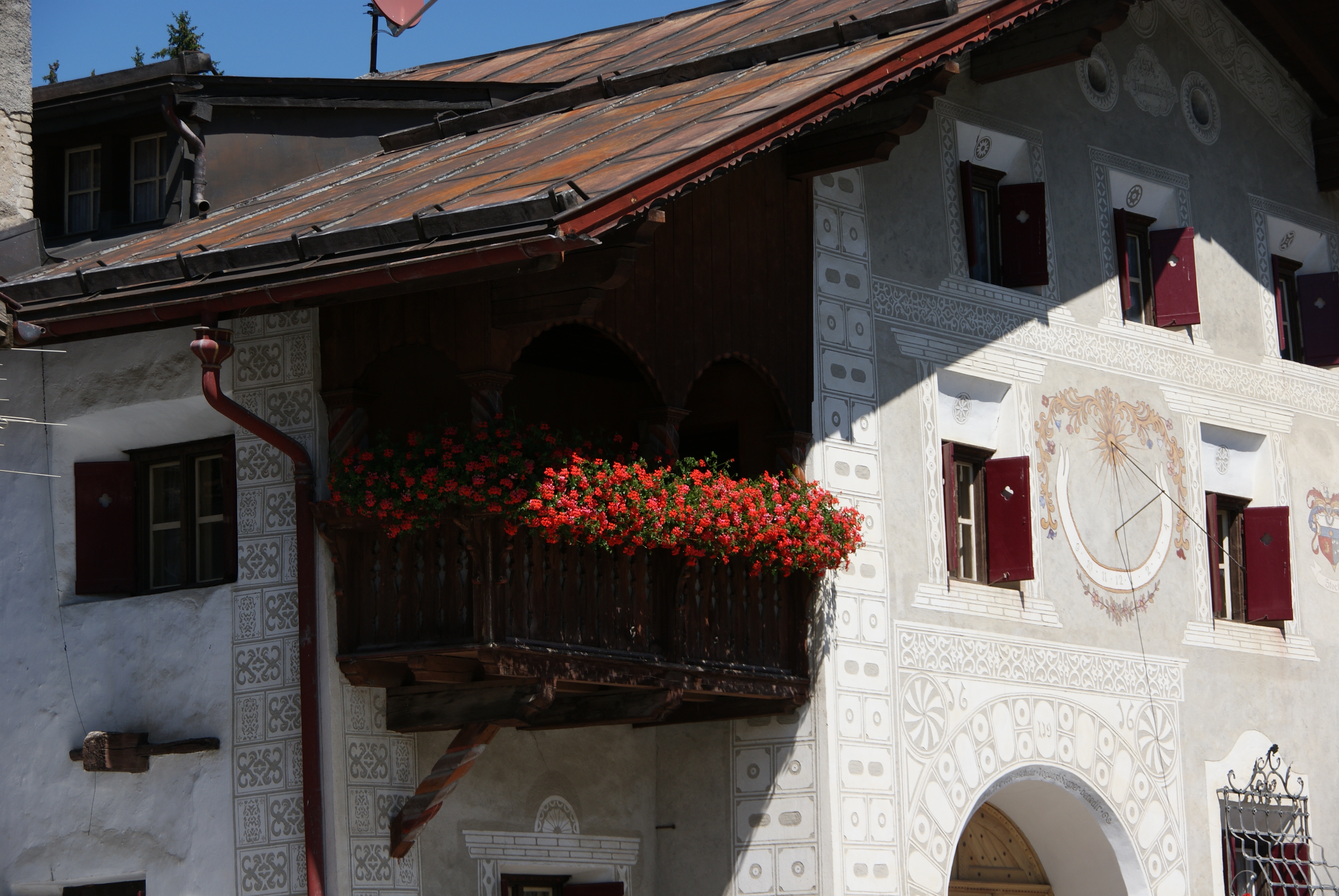 Scuol, Lower Engadine